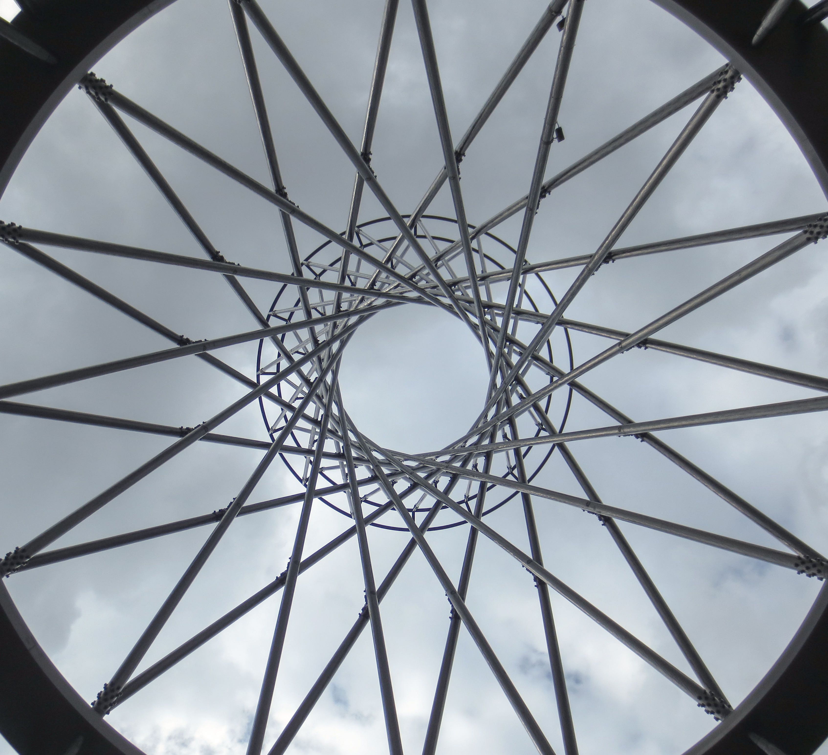 Mae West from Rita McBride in Munich. View from inside up to the top of the tower on Effnerplatz.